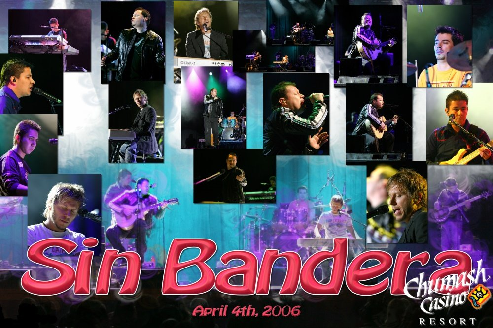 Sin Bandera in concert at the Chumash Casino Resort in Santa Ynez, California.